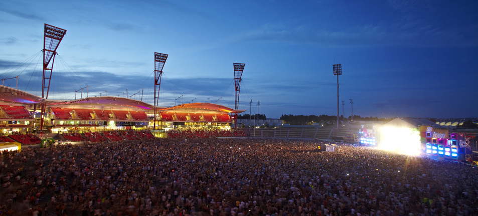 Crowd shot of Stereosonic Sydney